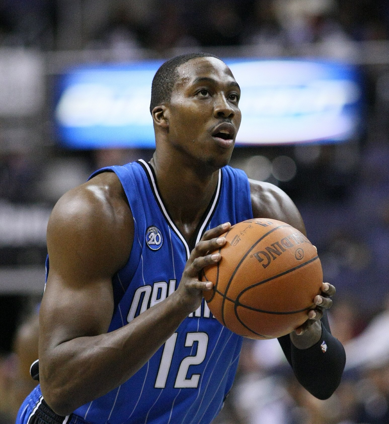 Dwight Howard in action at the Orlando Magic v/s Washington Wizards Game on 11/27/08